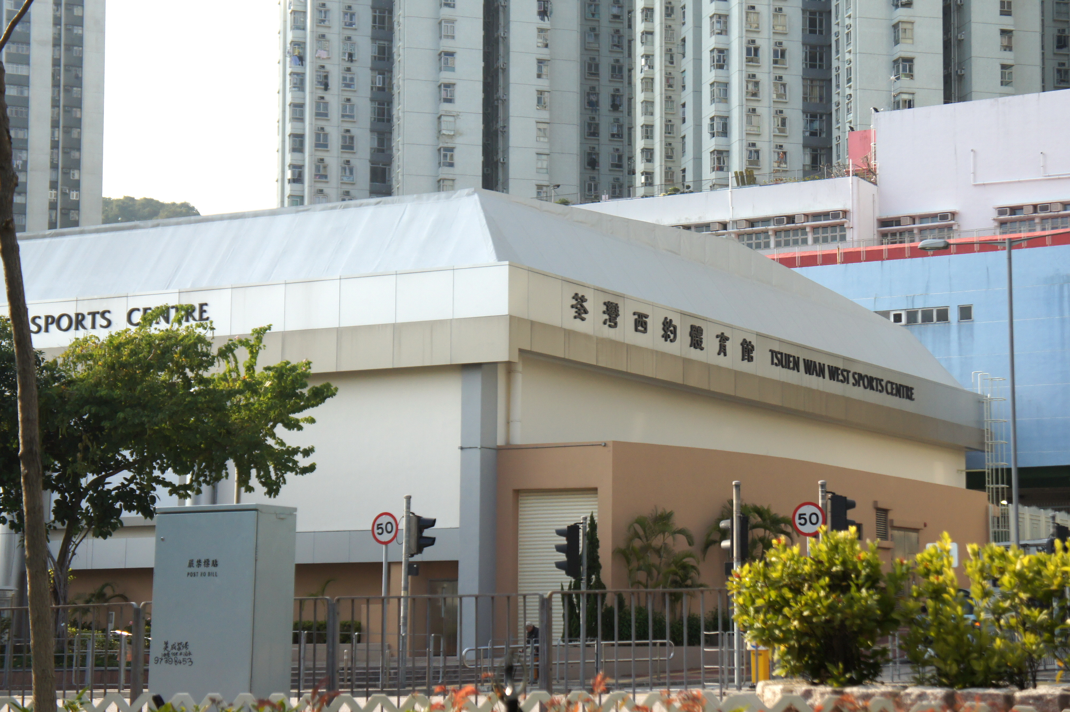 Tsuen Wan West Sports Centre, 68 Hoi On Road, Tsuen Wan, New Territories, Hong Kong.